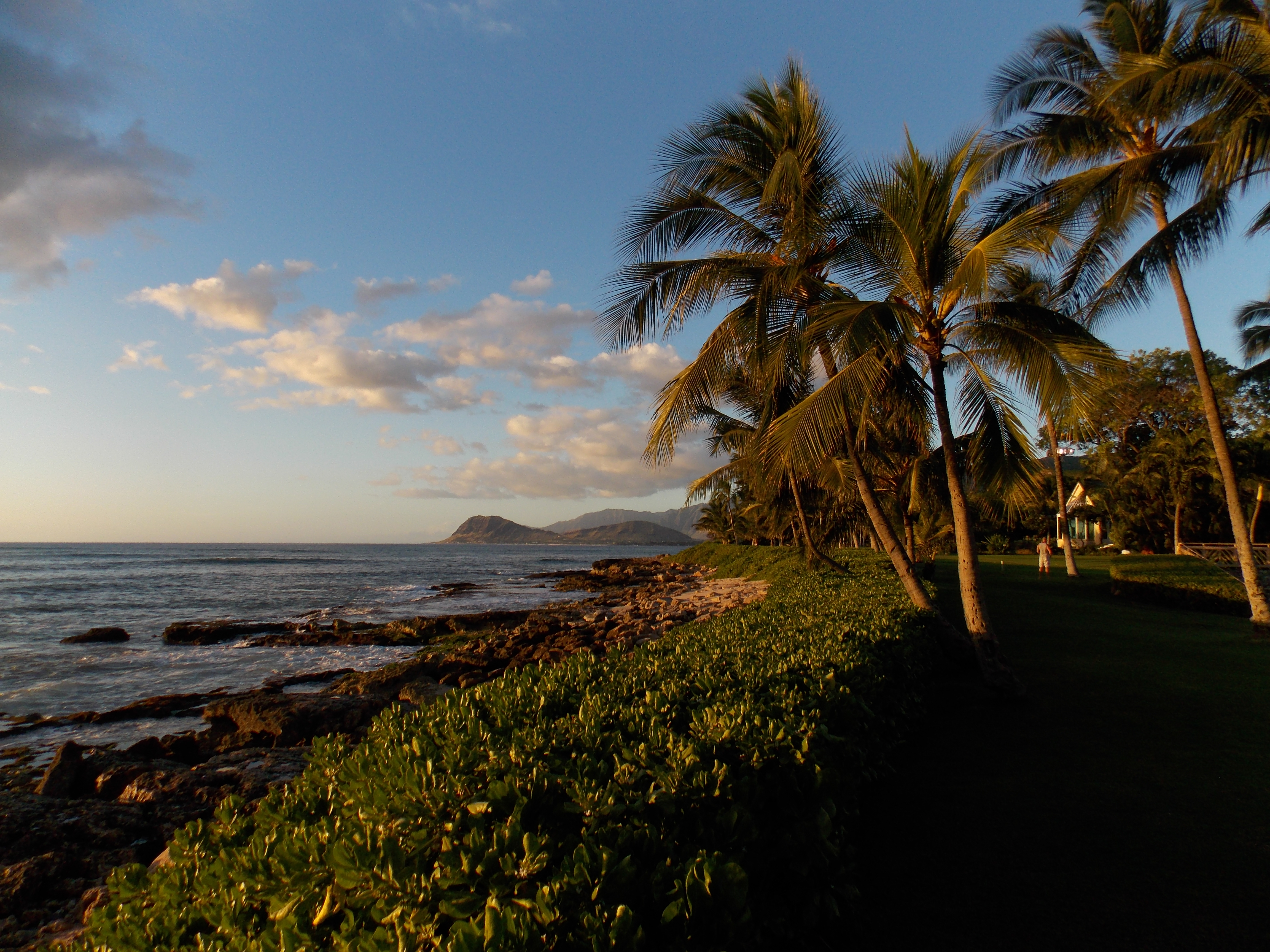 Paradise Cove in the Ko Olina resort area of Kapolei, Hawaii.